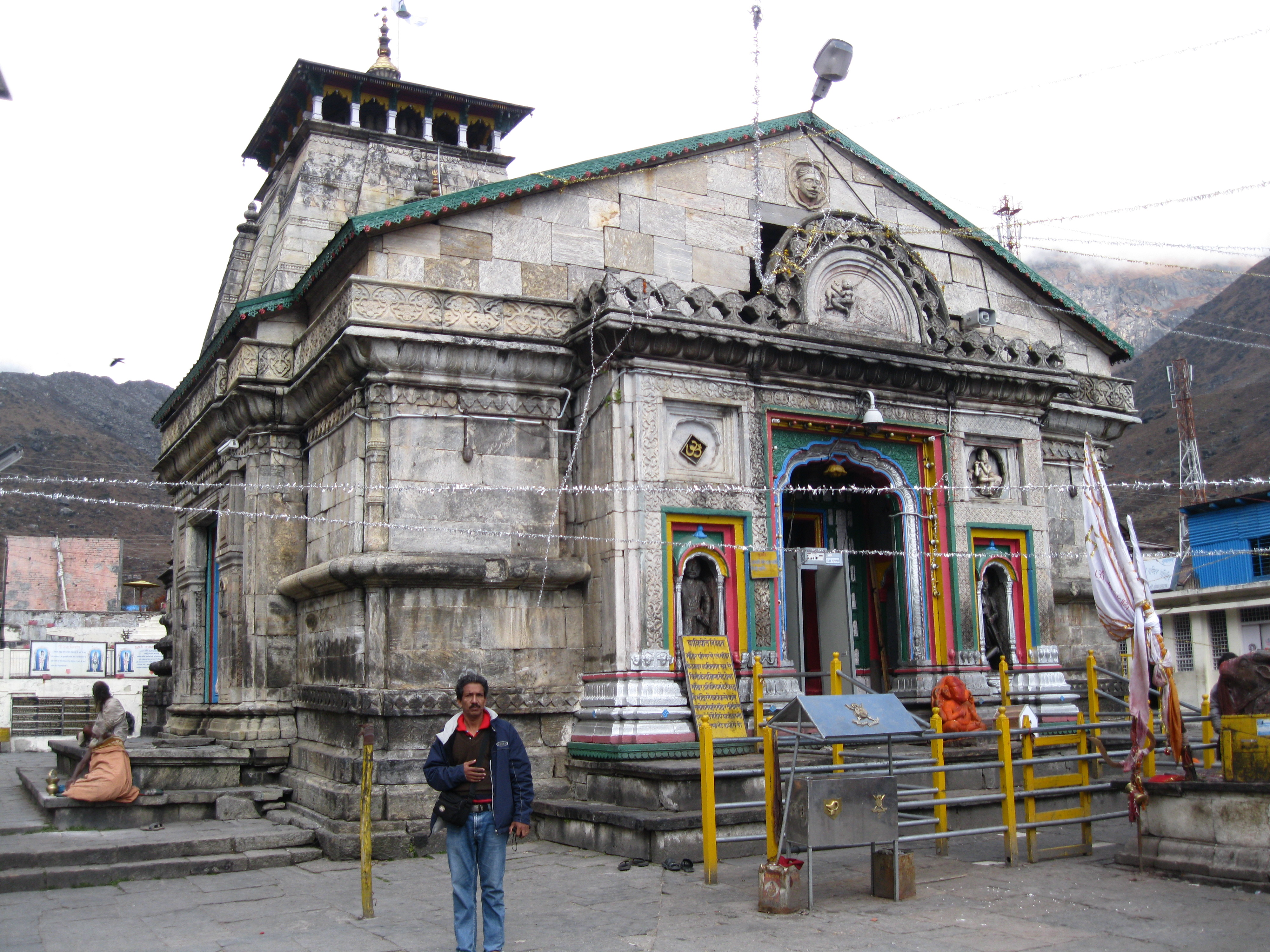 kedharnath temple before the flood, 2011